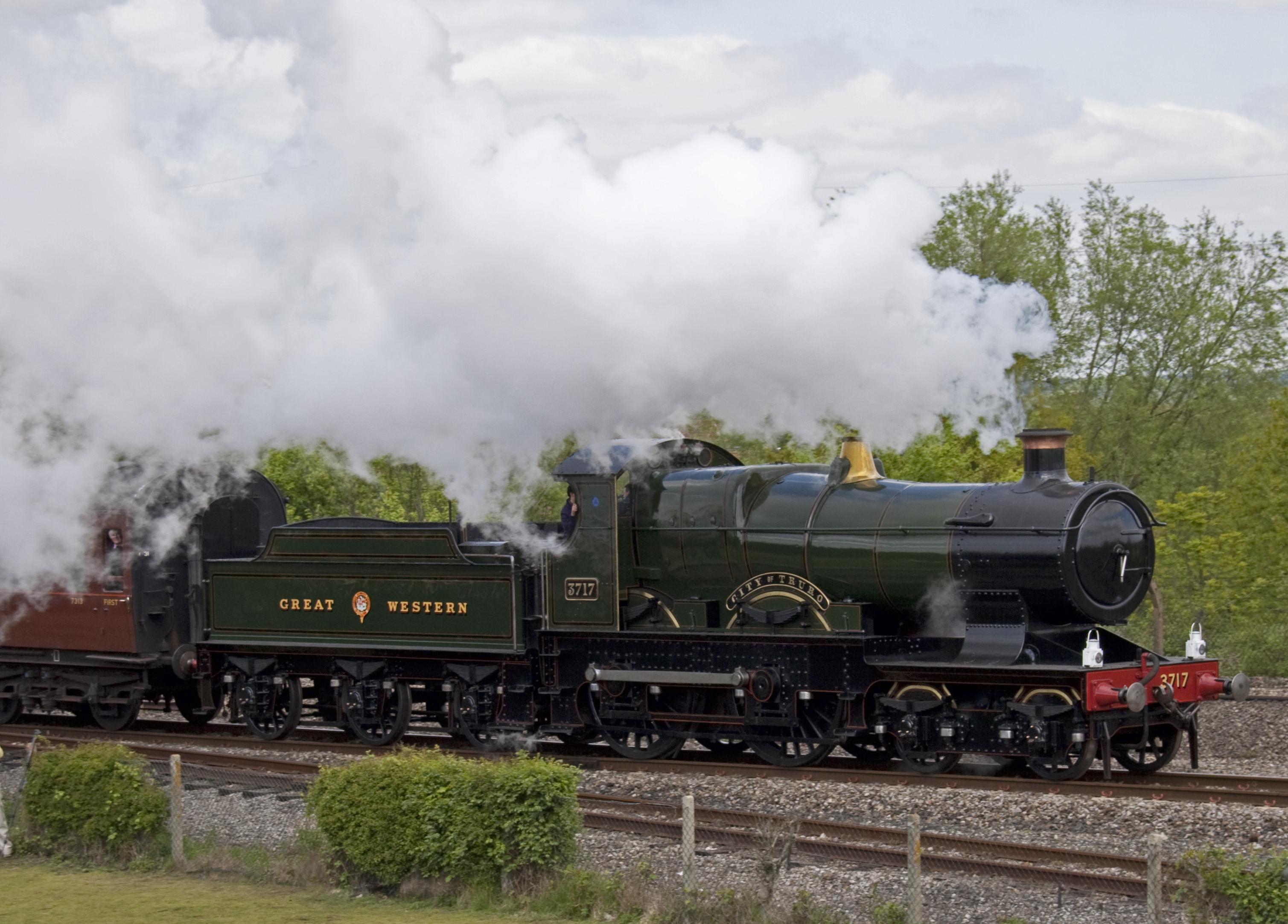 City of Truro running with No 3717 at Didcot as part of the GWR 175 celebrations